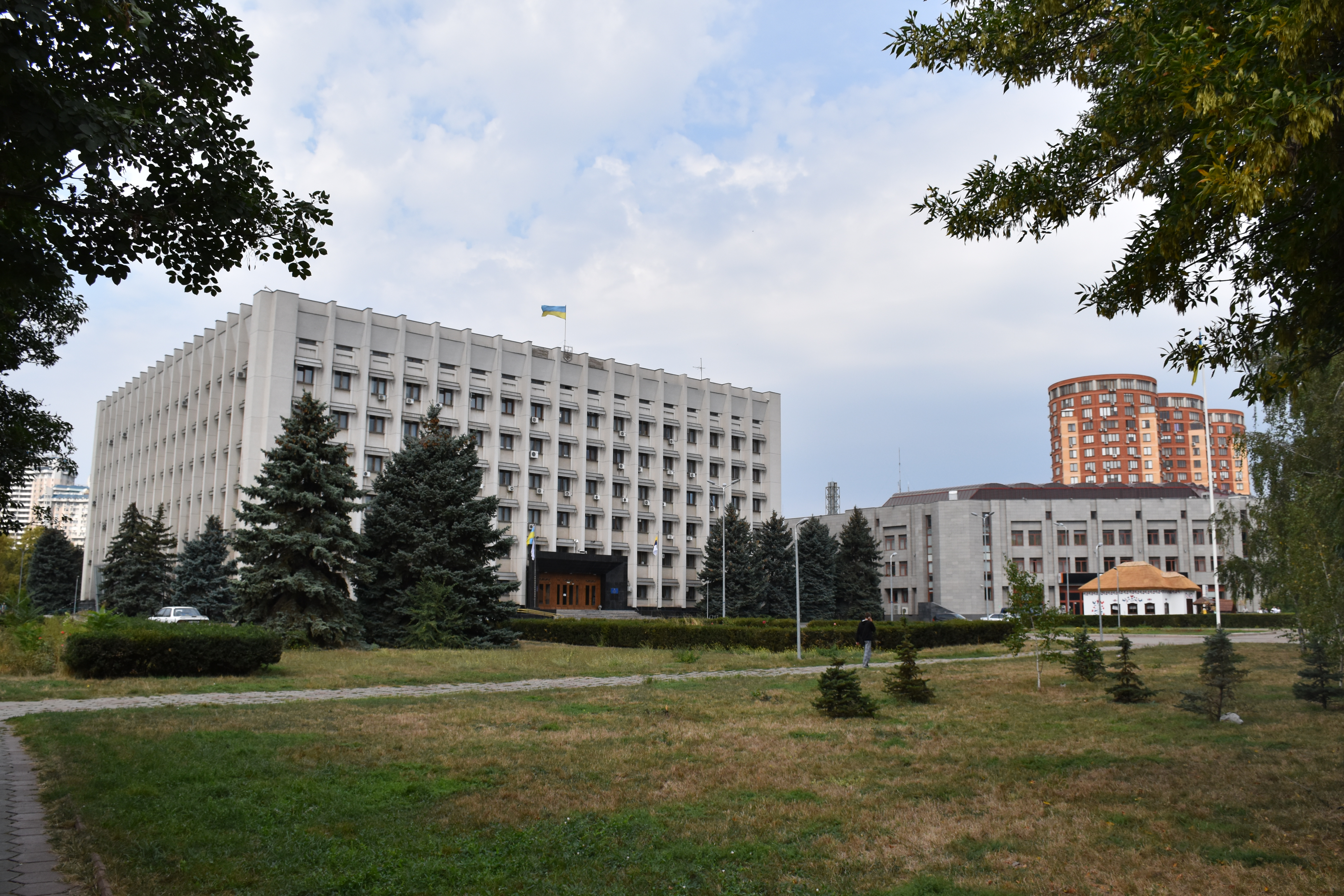 Building of Regional Administration and Regional Council of Odessa Oblast.